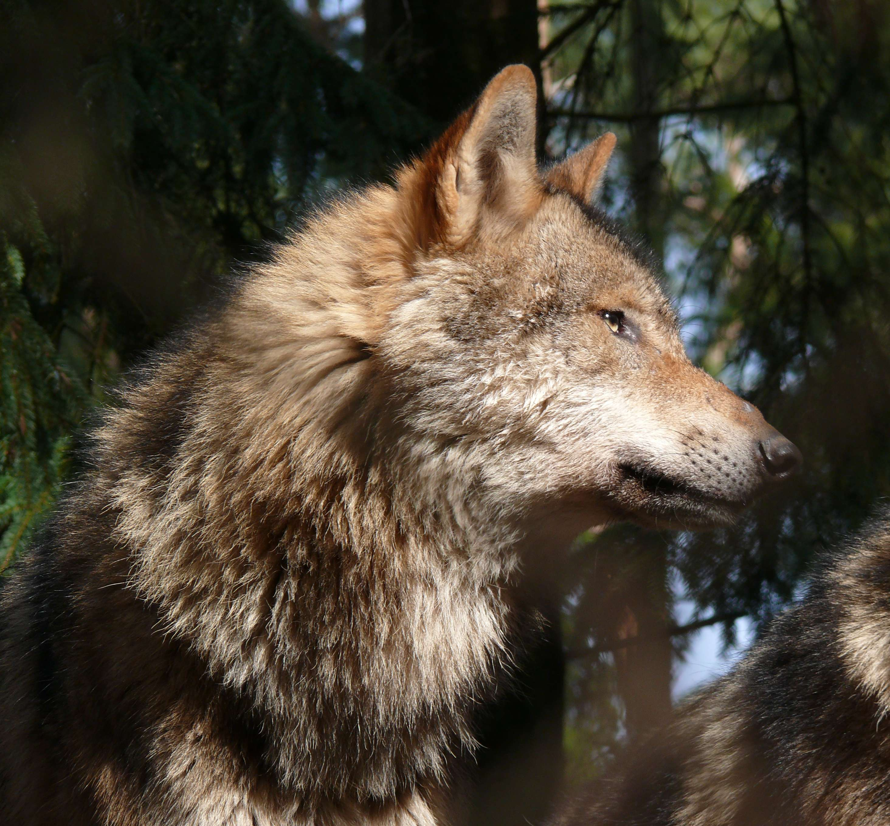 European Wolf, head